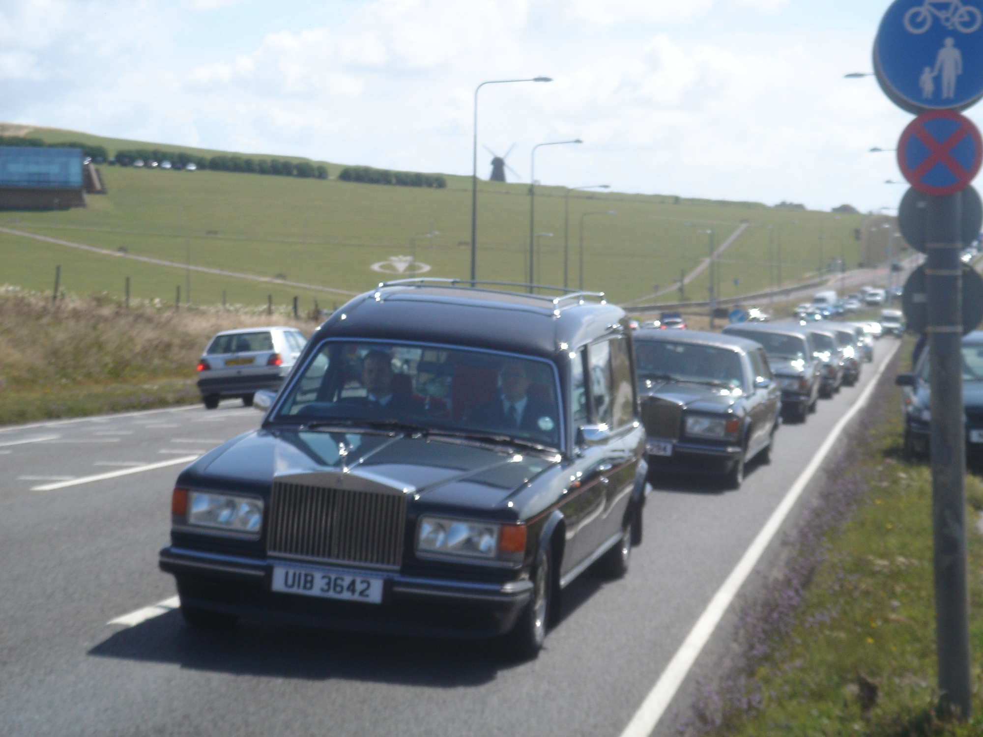 Funeral procession of Henry Allingham leaving St Dunstan's (the National Centre for blind ex-British Armed Forces personnel), Ovingdean, City of Brighton and Hove, en route to St Nicholas' Church, Brighton where his funeral was held. Taken by me on Marine Drive approximately halfway between St Dunstan's and Roedean School.